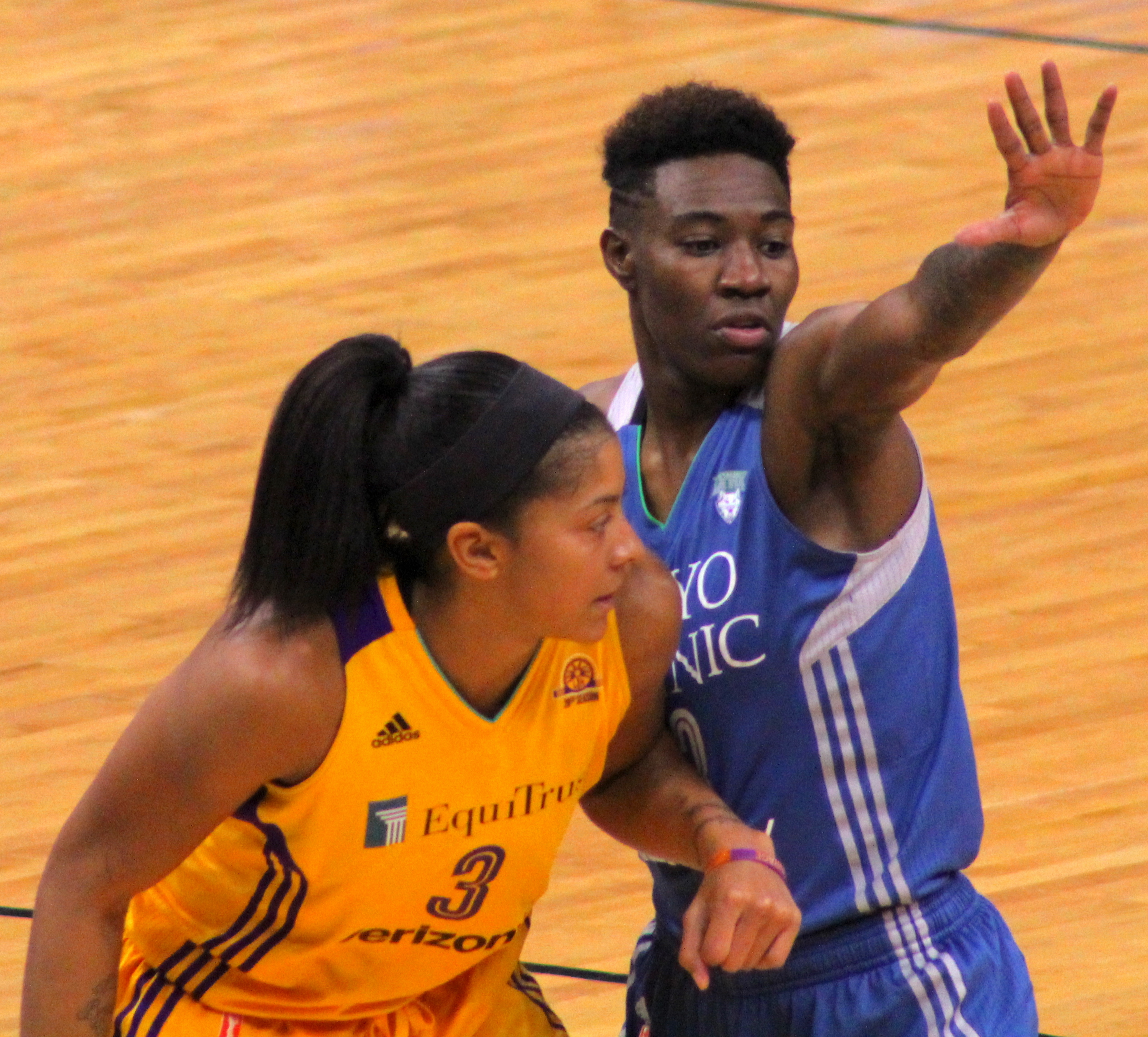 Candace Parker of the Los Angeles Sparks and Natasha Howard of the Minnesota Lynx